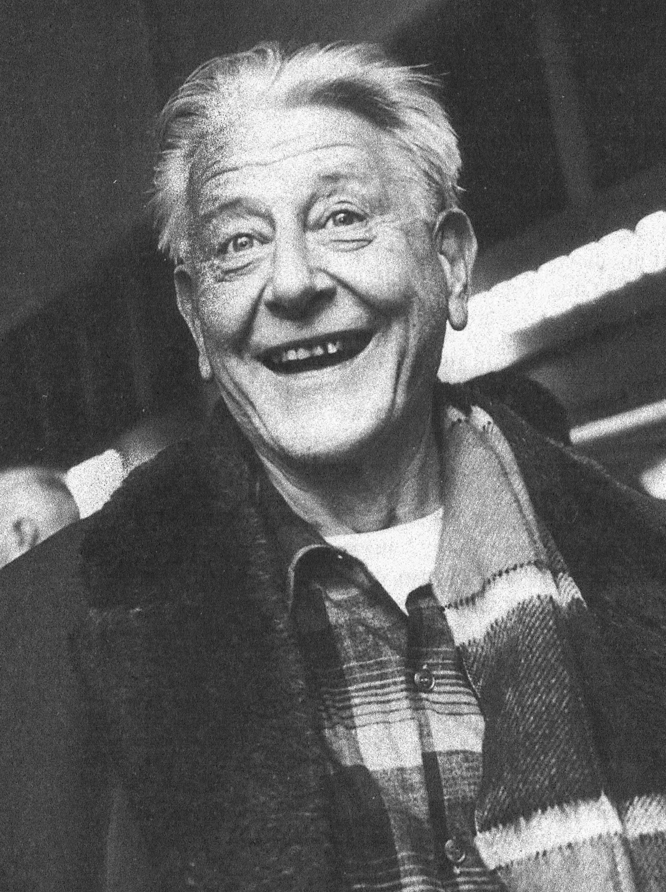 Jules Sylvain (1900-1968) arriving at Bulltofta Airport, Malmö